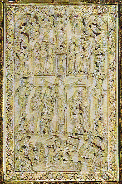 Carved ivory front cover plaque made in the middle of the 11th century, depicting the life of Jesus, 17,6 cm x 11,3 cm